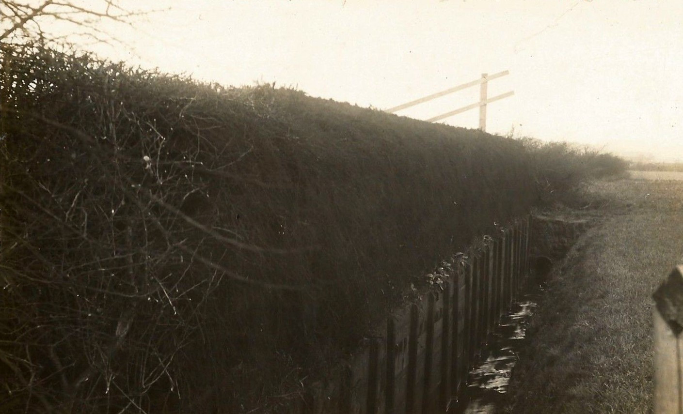 Beeches Brook, Aintree Racecourse.